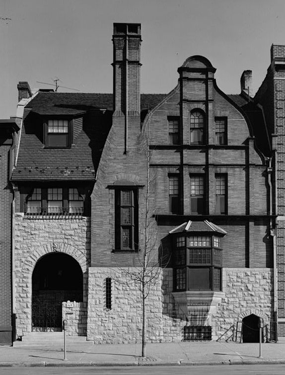 Dr. Henry Genet Taylor House and Office, 305 Cooper Street, Camden, New Jersey (1884-86), Wilson Eyre Jr., architect.